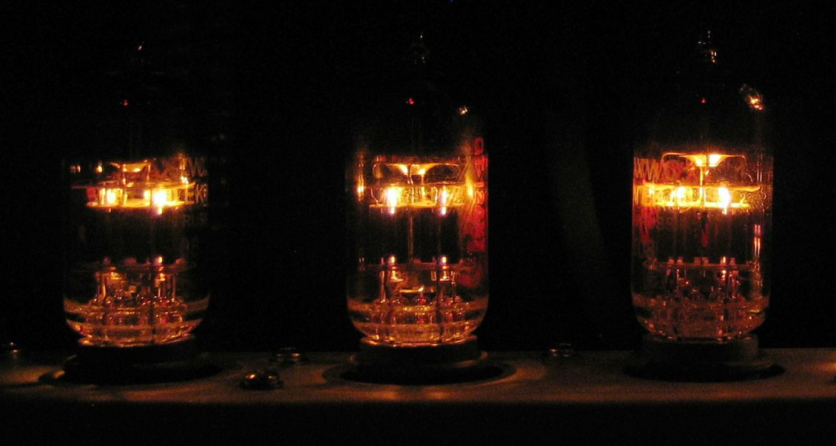 12AX7 vacuum tubes glow inside a modern guitar amplifier.